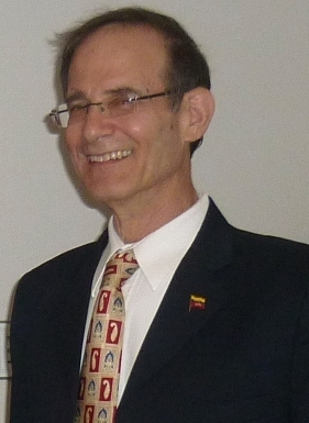 foto de Steve Ellner en Australia en 2011